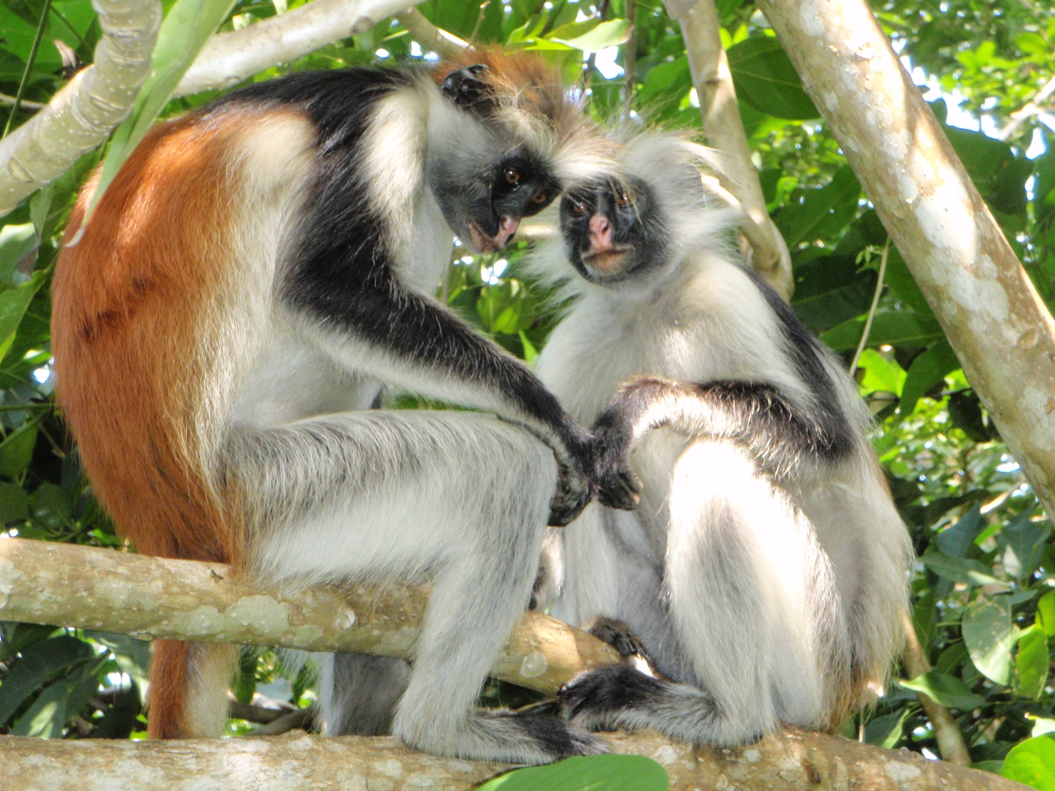 Red Colobus monkeys in Jozani forest. Endemic to Zanzibar.